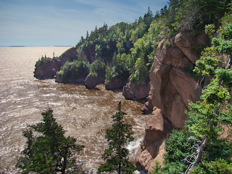 Hopewell Rocks, Bay of Fundy, New Brunswick, Canada. Big Cove at high tide.